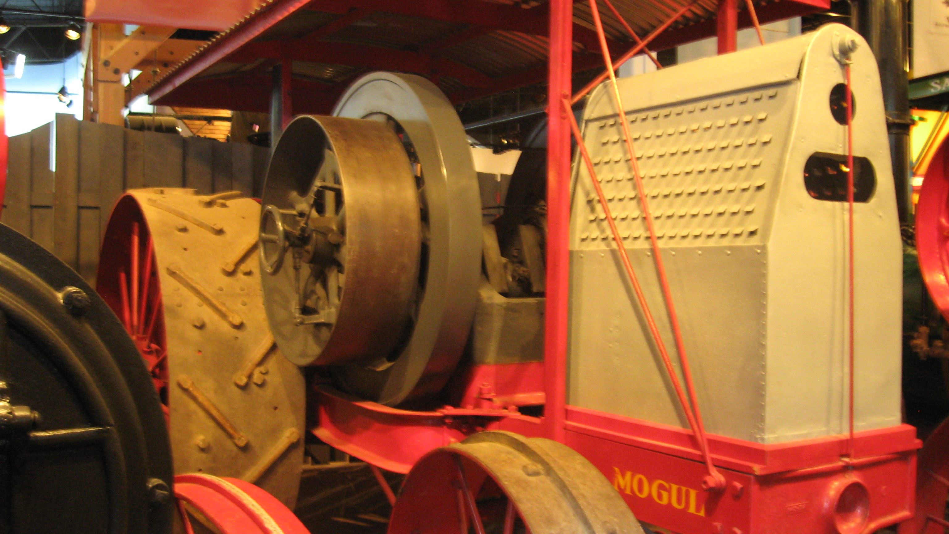 1911 International 25hp Type C Mogul tractor. One cylinder horizontal engine, with one forward and one reverse speed, by friction drive. 862 built 1911-14. Sold through McCormick dealers. Used in Saskatchewan around 1910. Shot at Western Development Museum, Saskatoon